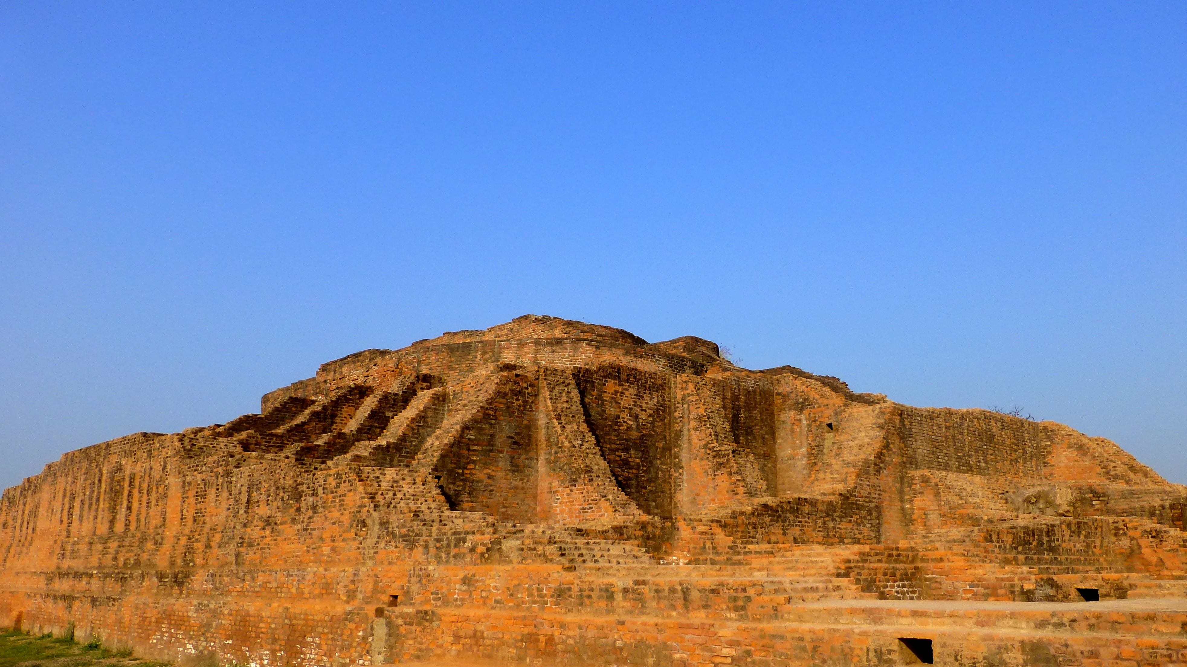 42 Angulimala's Stupa, Shravasti. Photograph of the Jetavana monastery at Shravasti in Pradesh taken by Anandajoti.